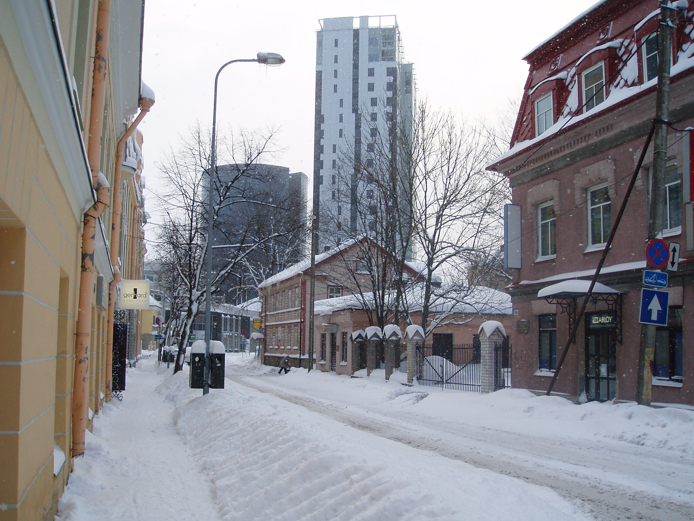 Maakri tänav New Year, Tallinn 2 January 2010